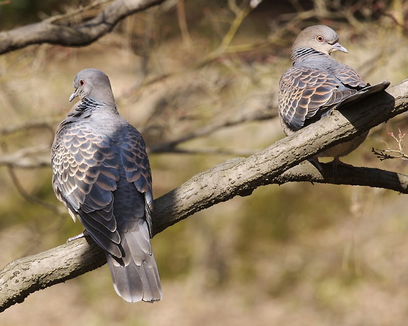 Oriental Turtle Dove Streptopelia orientalis orientalis - pair